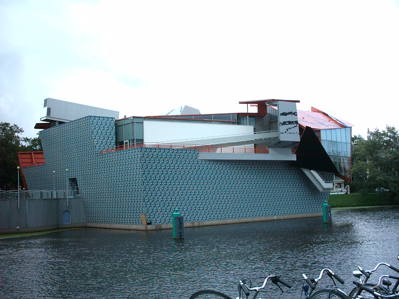 The Groninger museum, designed by Alessandro Mendini, in Groningen, the Netherlands, August 2004.